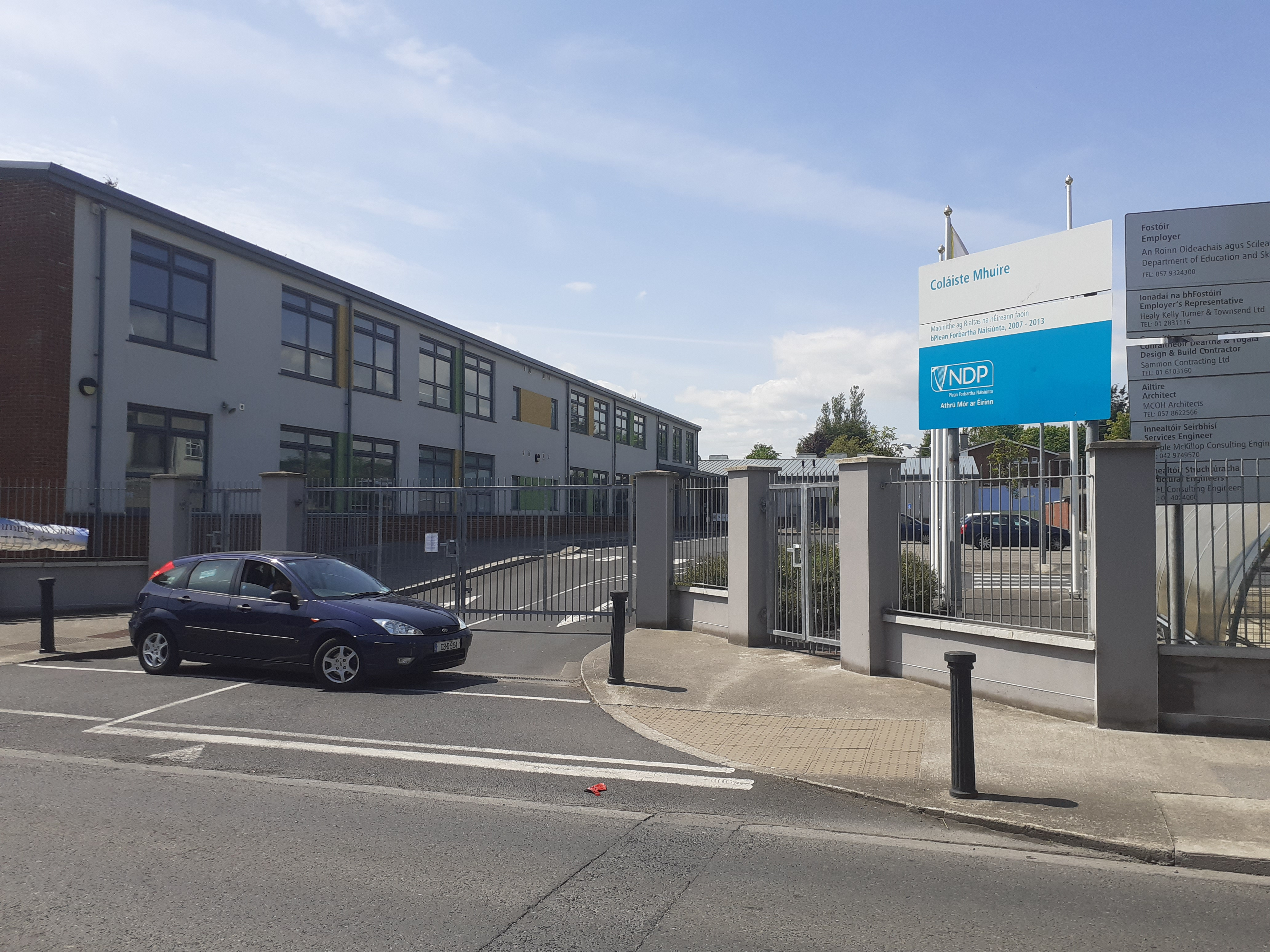 Gaelcholáiste (second-level gaelscoil) Coláiste Mhuire, Cabra. (2020)